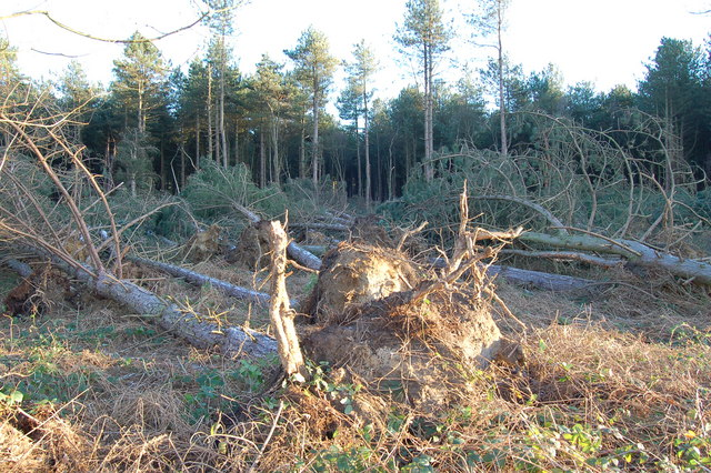 Storm Damage 2 Some of the tens of thousands of trees blown down in Stapleford Woods during a storm last winter. The adjacent forest block had recently been clear felled, so these trees were not used to being exposed to strong winds.